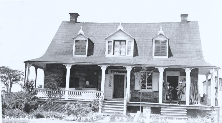 Photograph, J. H. Simard's store, Ste. Anne des Plaines, QC, about 1910, Silver salts on paper mounted on card - Gelatin silver process - 7.1 x 12.7 cm